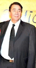 Indian actor Randhir Kapoor at the premiere of 3 Idiots (2009)